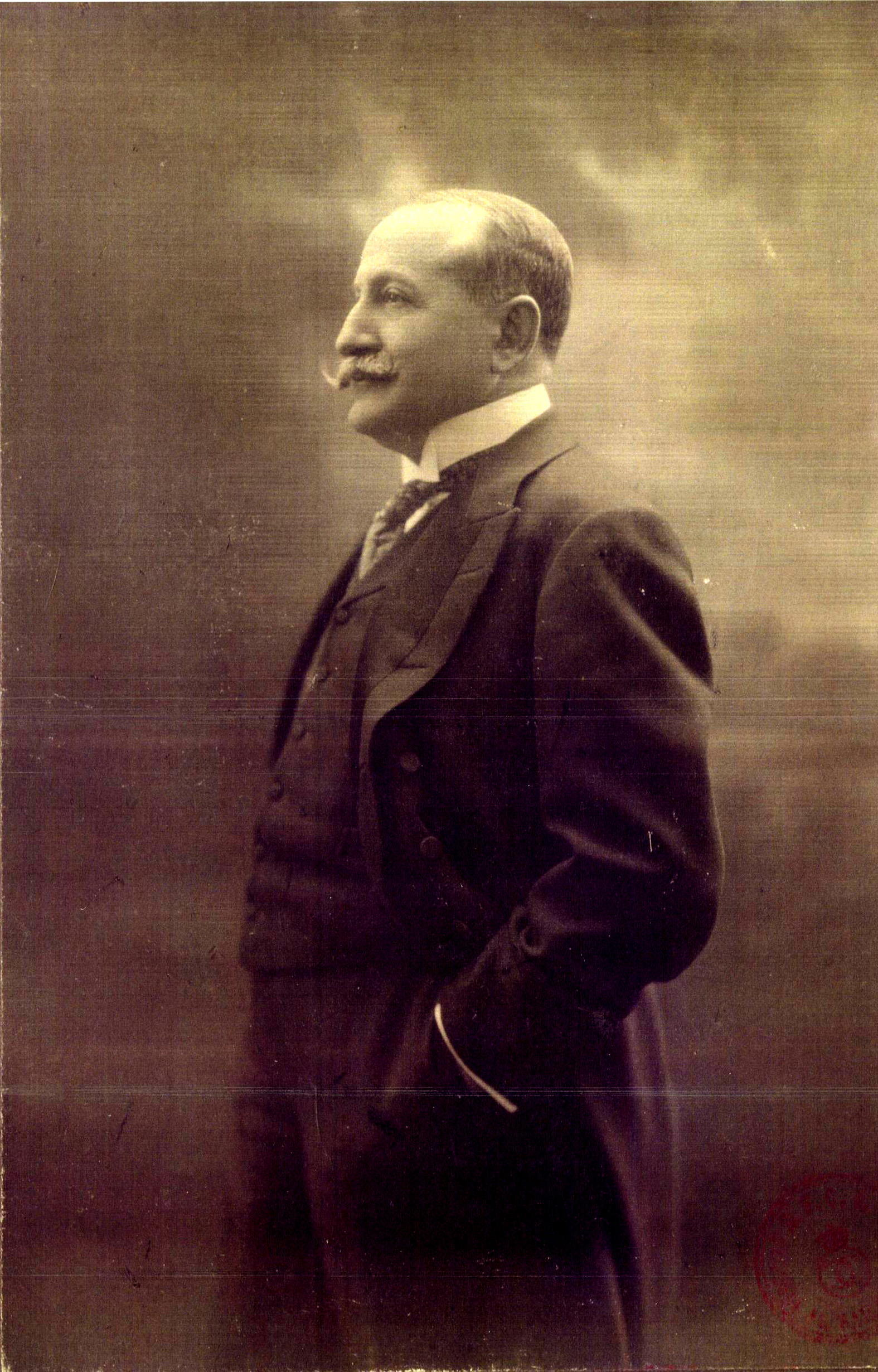 Image of Take Ionescu (1858 - 1921), Prime Minister of Romania from 1921 to 1922